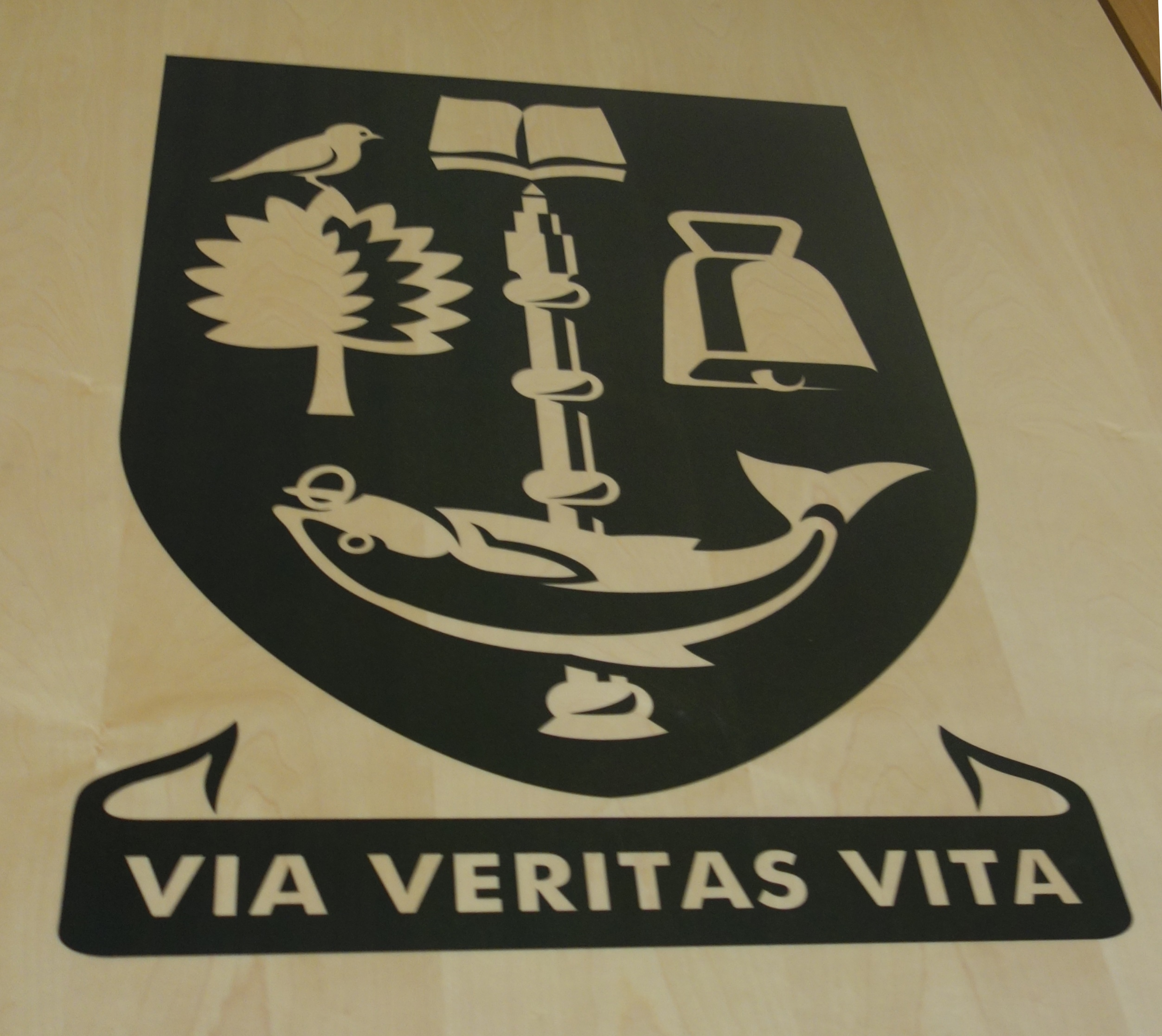 Glasgow University logo: Via Veritas Vita